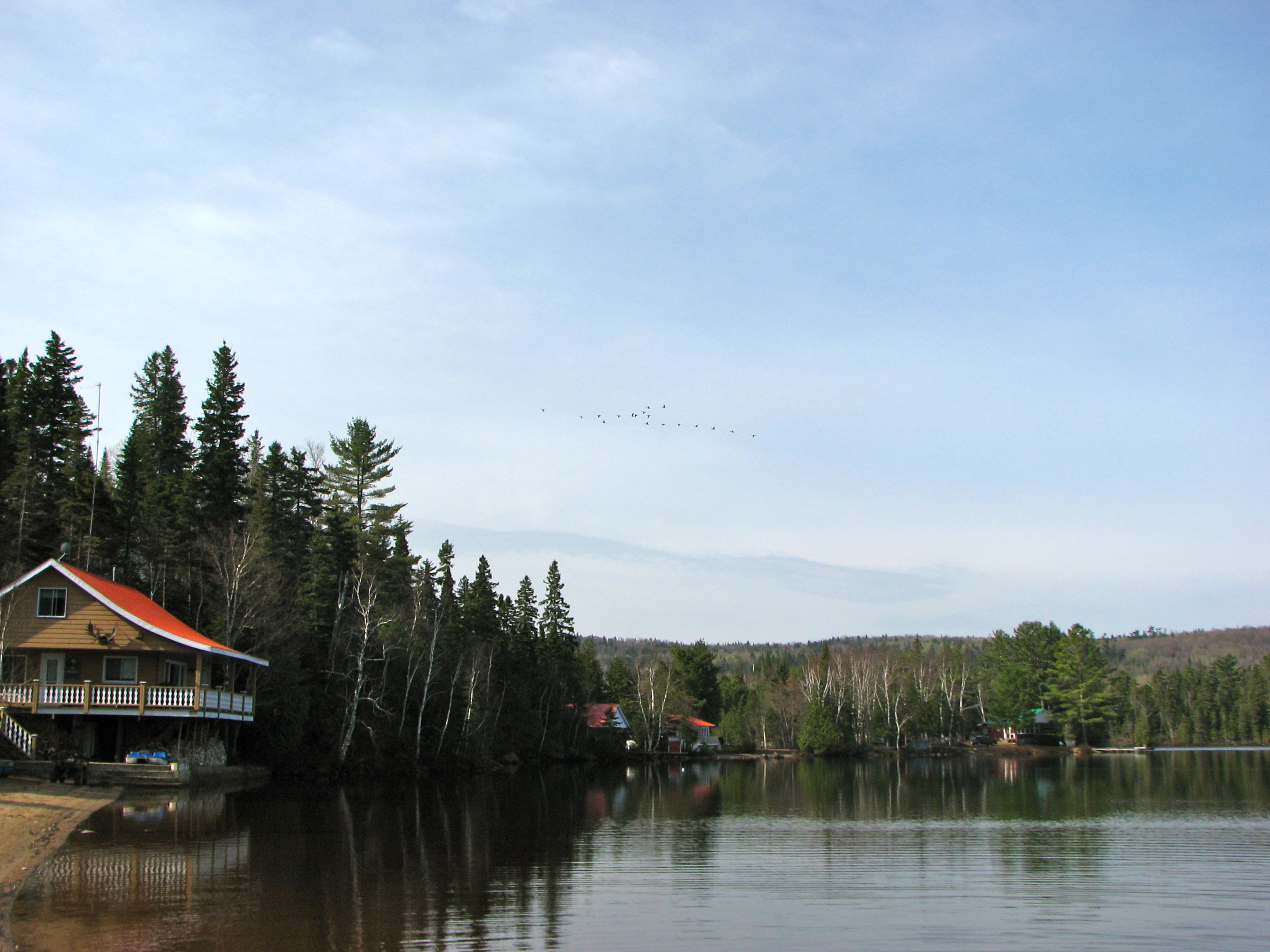 Lac Gauthier